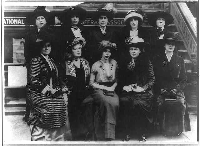 Back row, second from left is Nina Allender, second from right is Hazel MacKaye, far right is Elsie Hill. Front row (l to r): Glenna Tinnan, Helen Gardener, Alice Paul, Elizabeth Kent, and Genevieve Stone.